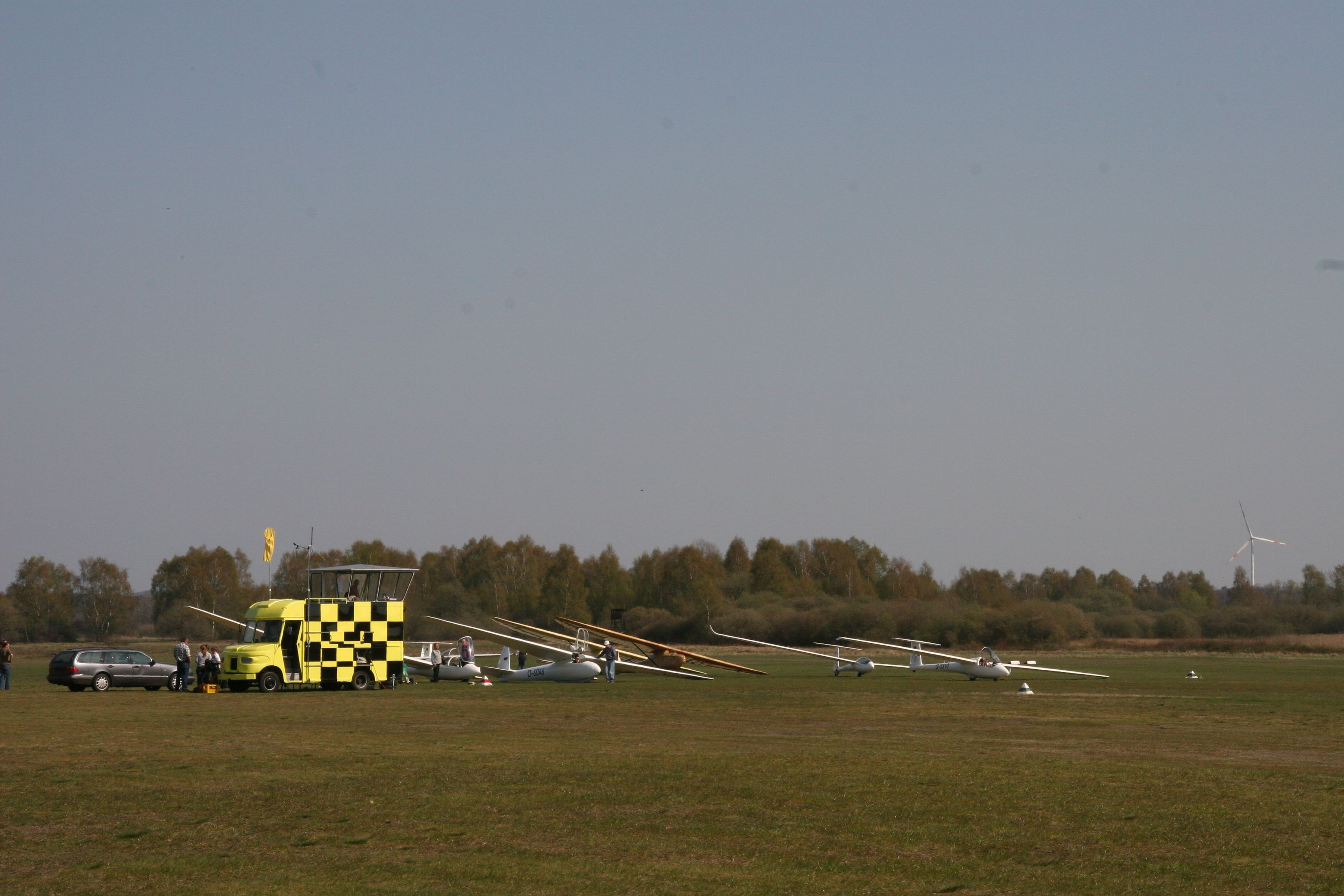 Bramsche-Achmer: gliding airfield